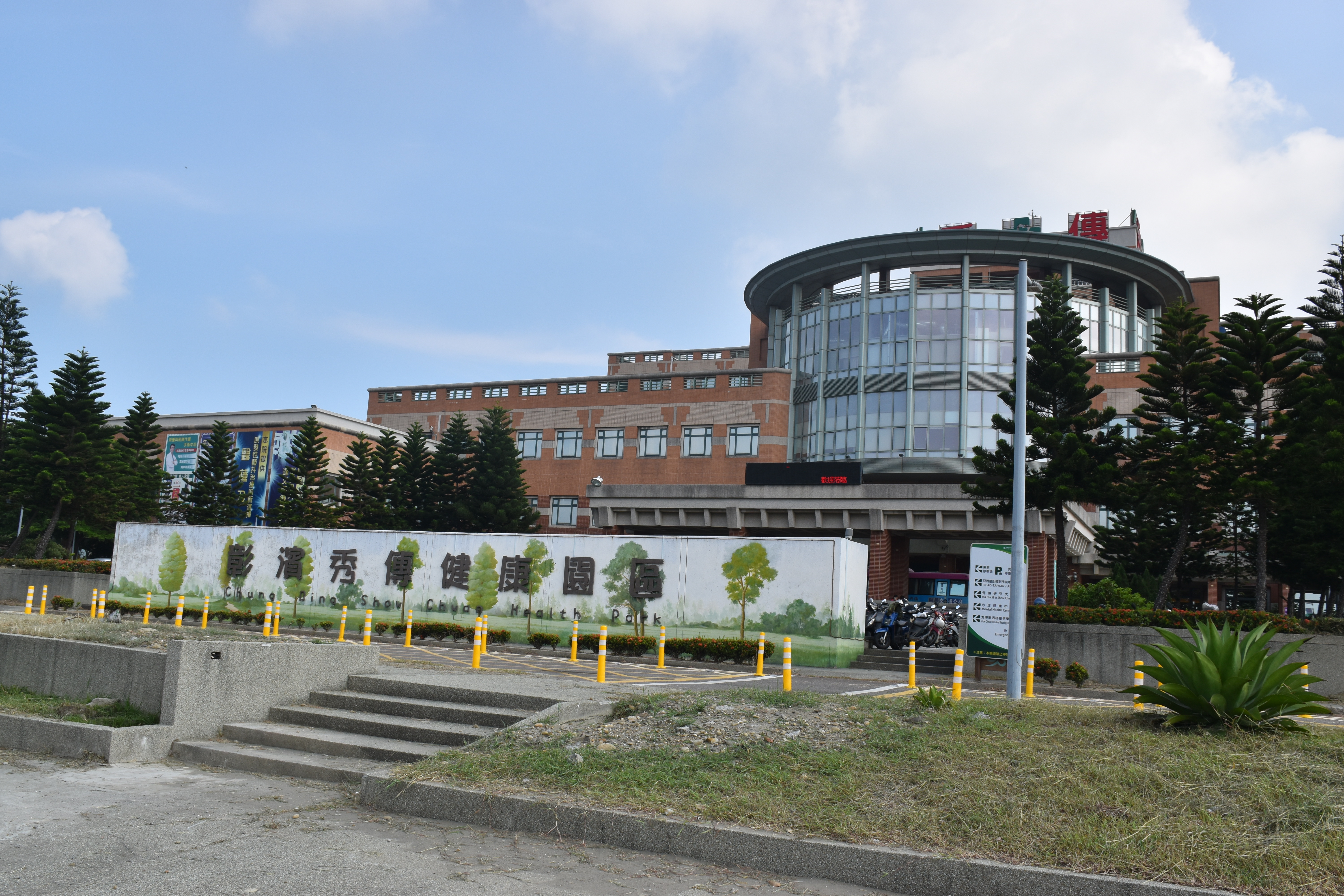 Sign in front of the hospital building shows Chang Bing Show Chwan Health Park.